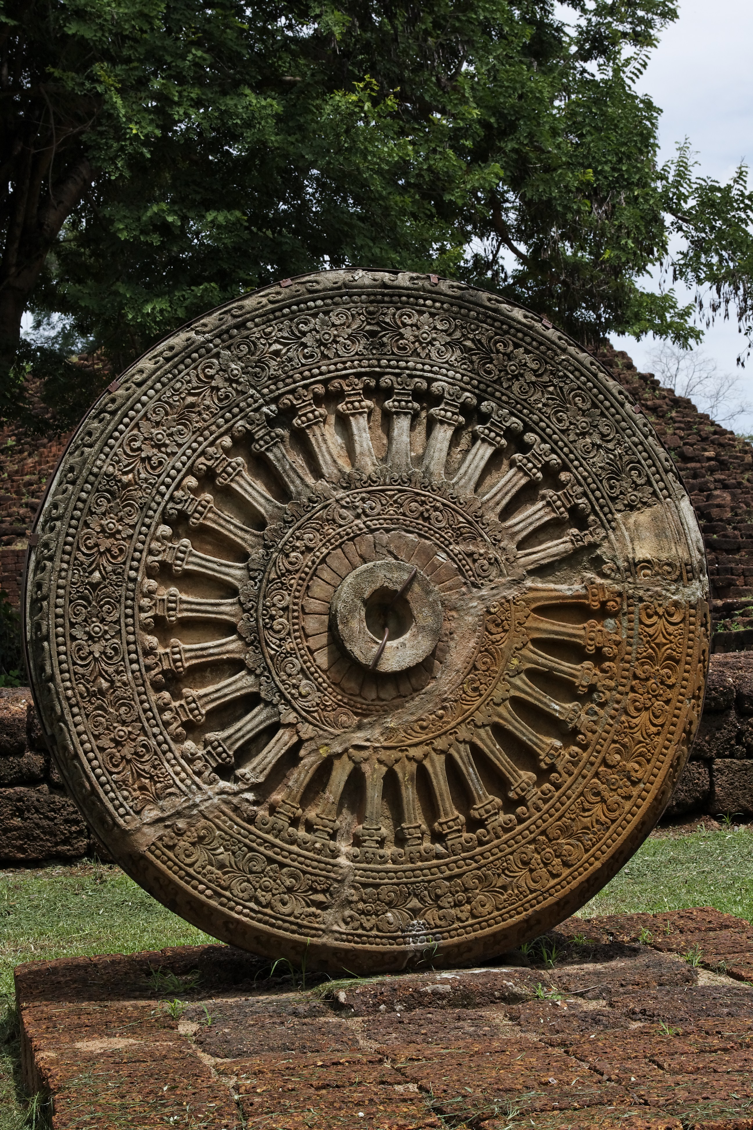 Khao Klang Nai, Si Thep Historical Park, Si Thep District, Phetchabun Province, Thailand. Buddhist wheel of the law (dharmachakra), Dvaravati period